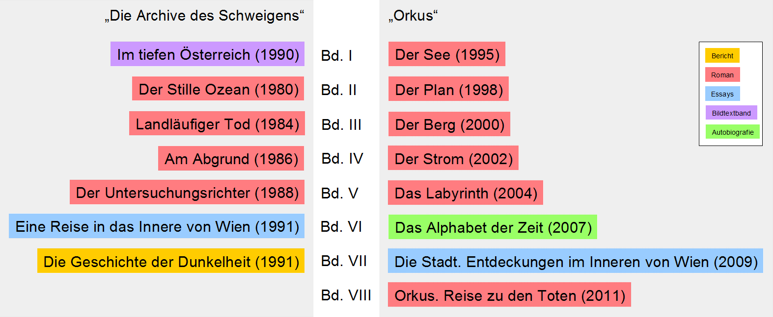 This chart gives a detailed overview of Gerhard Roth's narrative cycles "Die Archive des Schweigens" and "Orkus", including novels, essays, autobiographical and illustrated books.